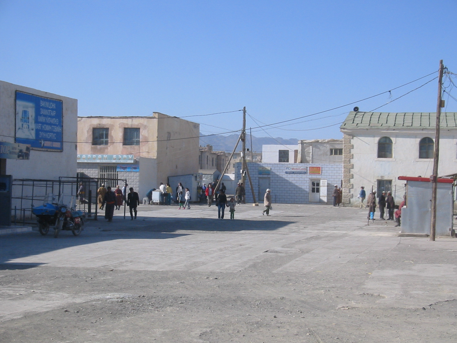 Dalanzadgad, the capital of Ömnögovi aimag in Mongolia.